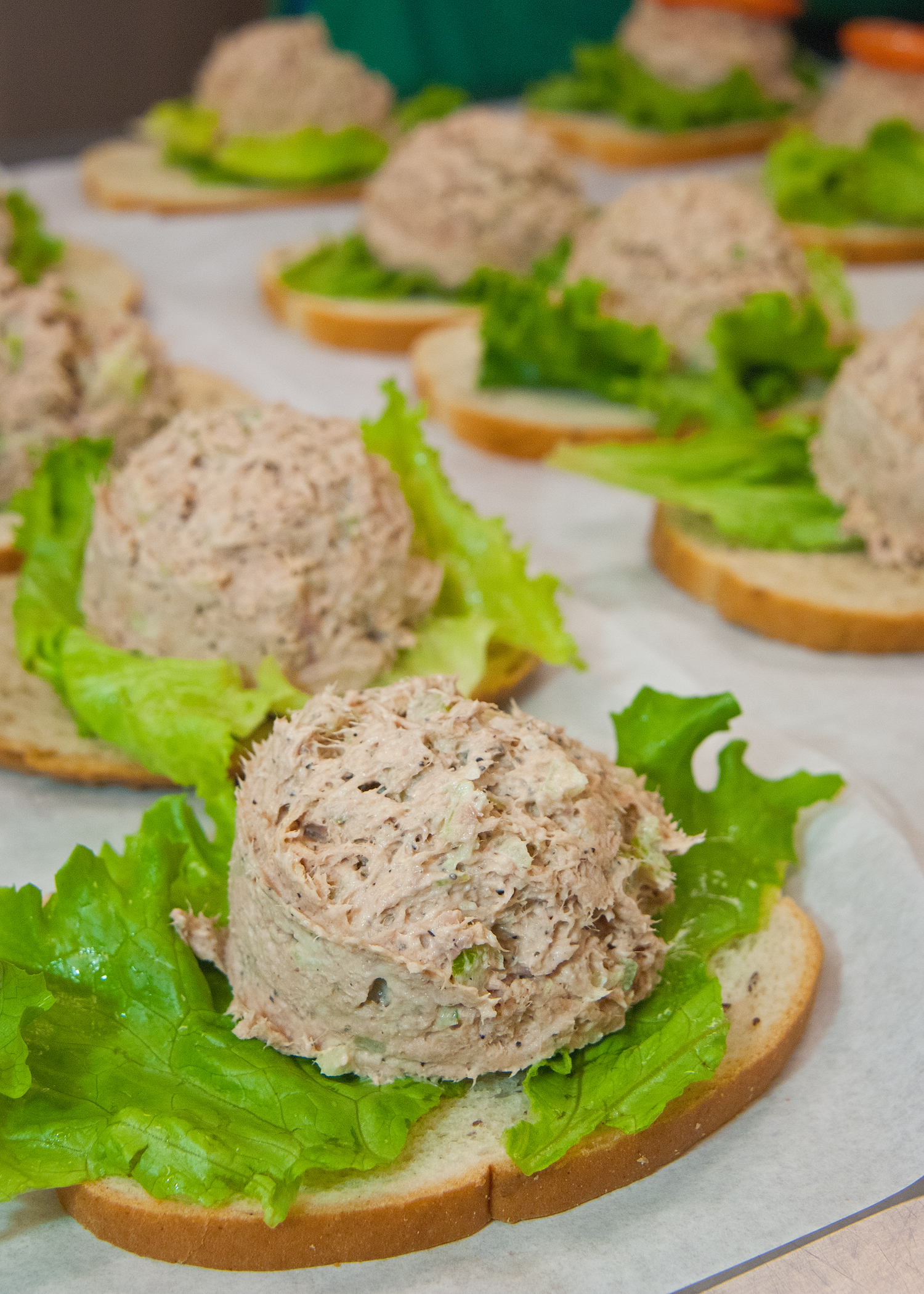 Tuna fish sandwiches for the National School Lunch Program at Washington-Lee High School in Arlington, Virginia, on Wednesday, October 19, 2011. The National School Lunch Program is a federally assisted meal program administered by the United States Department of Agriculture, Food and Nutrition Service operating in public, nonprofit private schools and residential child care institutions. It provides nutritionally balanced, low-cost or free lunches to children each school day. USDA Photo by Bob Nichols.